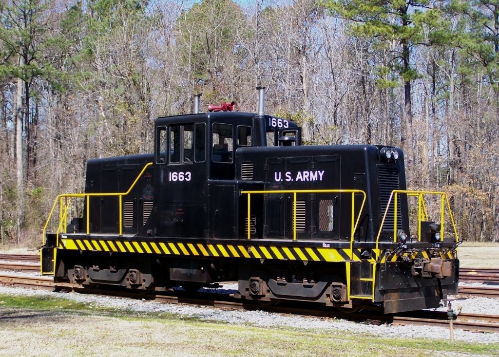 USAX 1663 GE 80-Ton serial number 31370 built in October 1952, rebuilt by Army in 1989. Sent to Fort Eustis from Letterkenny Army Depot in March 2002.